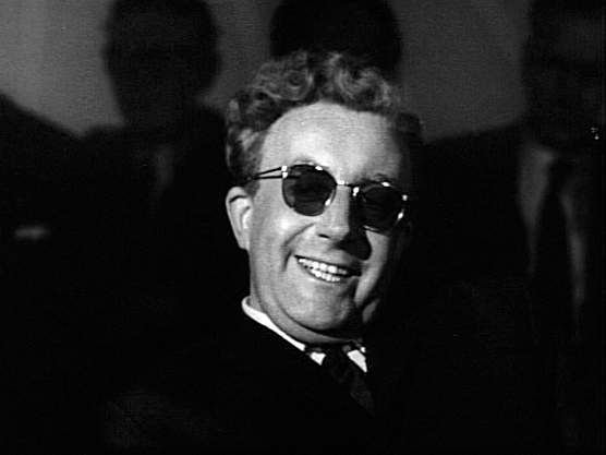 Peter Sellers as Dr. Strangelove from Stanley Kubrick's 1964 film, Dr. Strangelove.